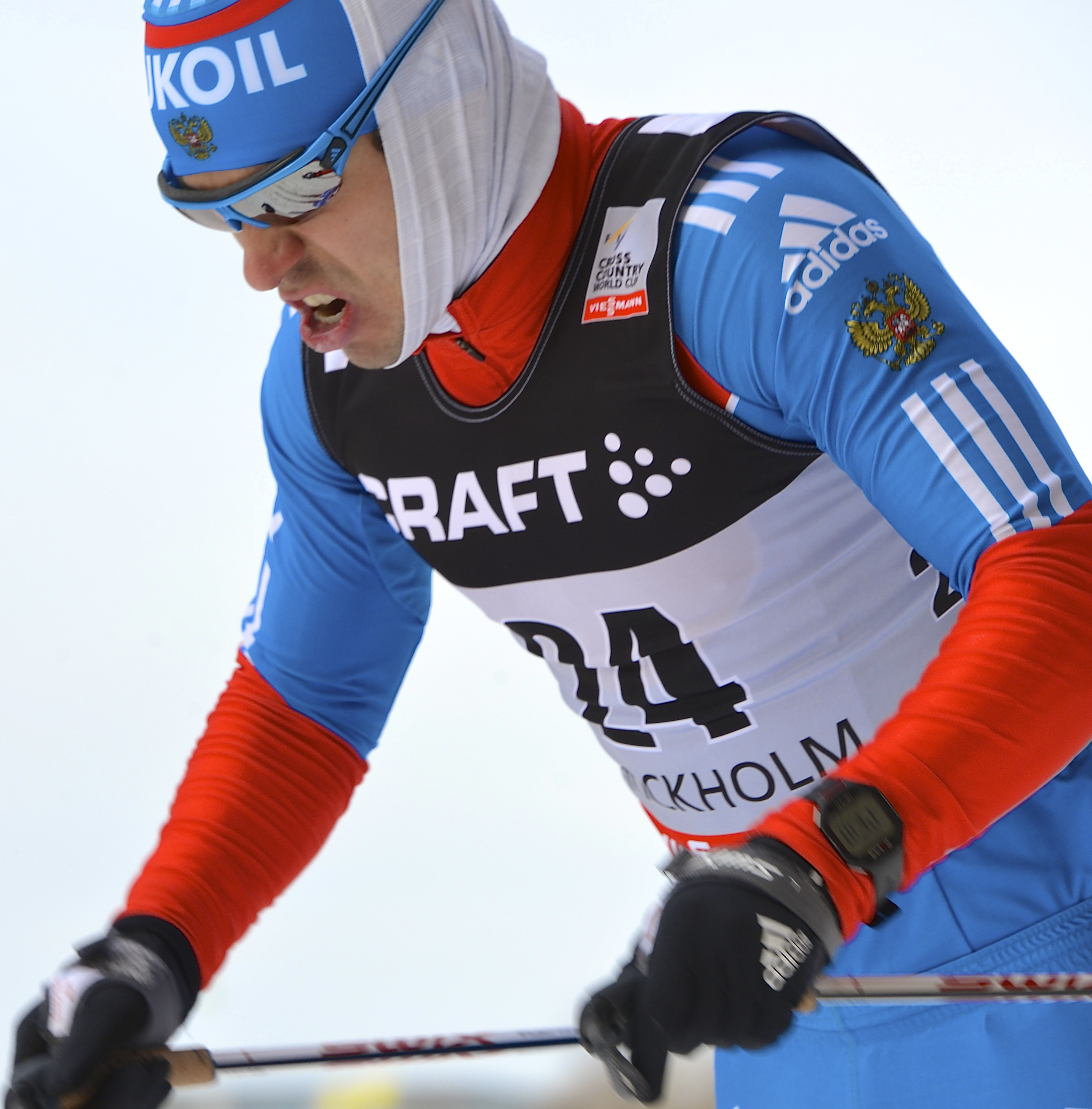 Ilja Tjernousov at Royal Palace Sprint in Stockholm March 20, 2013